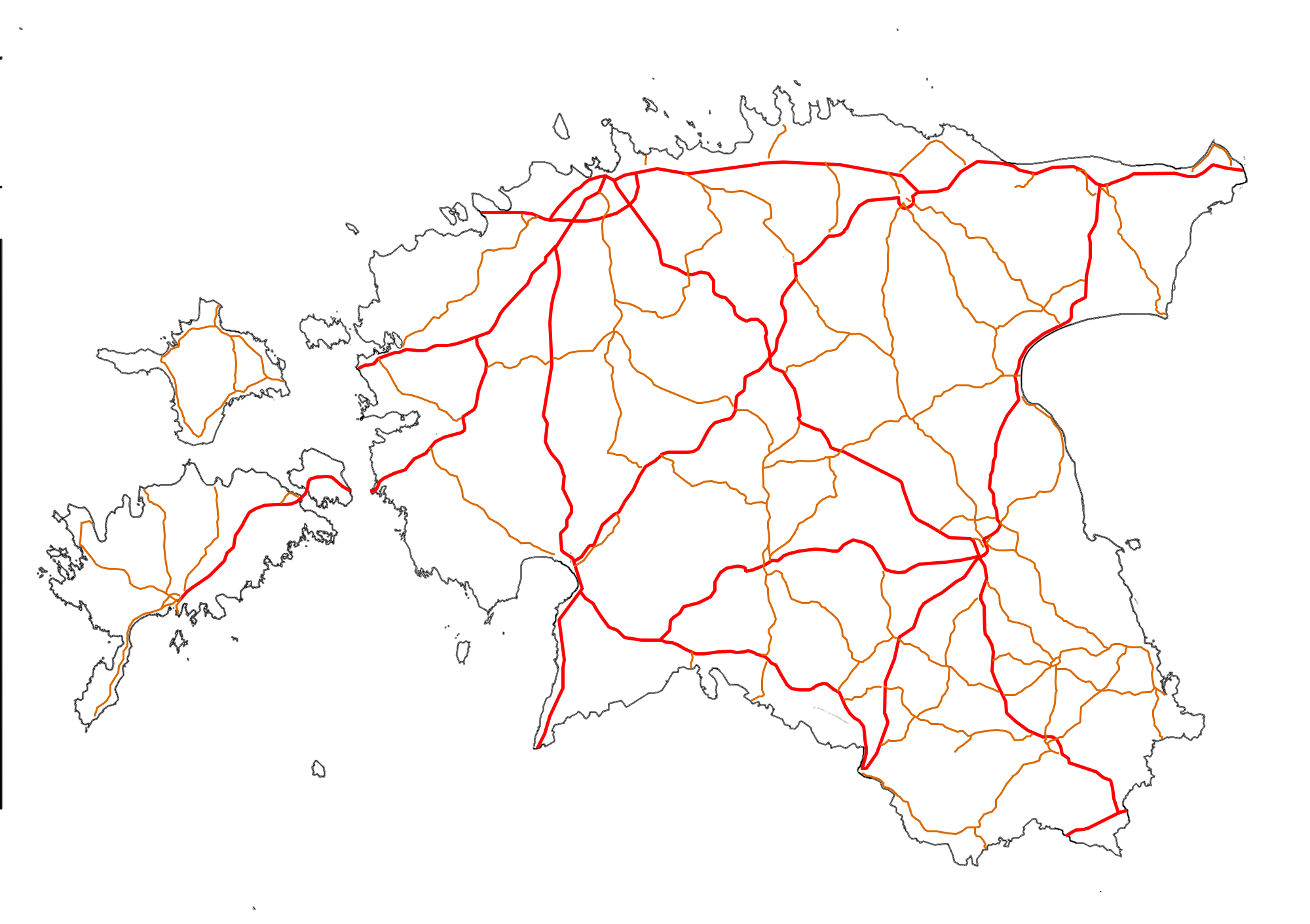 Estonian national main and support routes on a blank map.